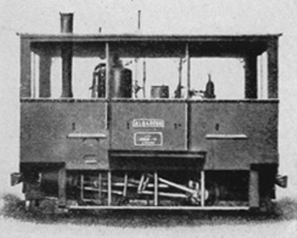 Locomotiva tranviaria Breda "Albaredo"